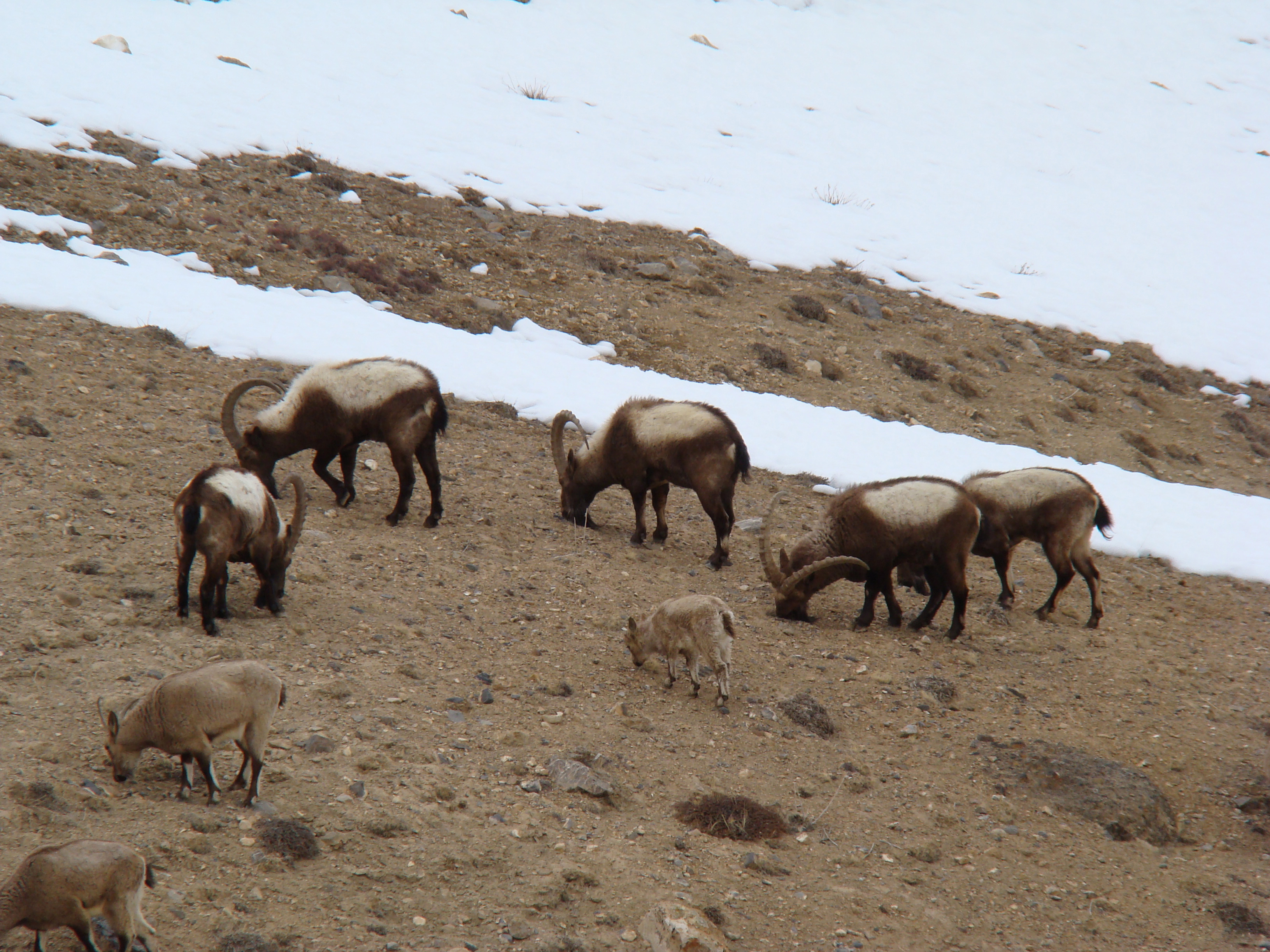 Siberian ibex in Himalaya, Spiti Valley, India